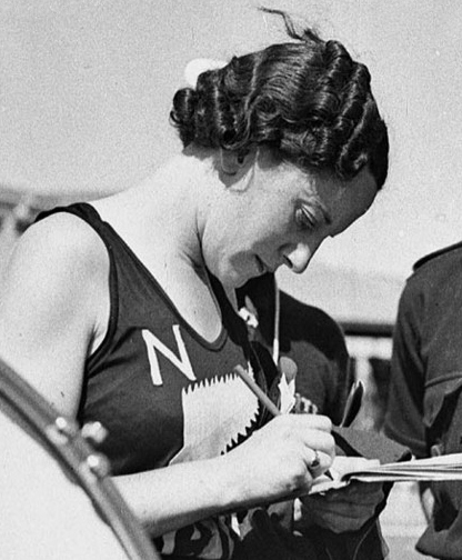 Empire Games - Rona Tong (NZ) after her bronze in the 80m women's hurdles